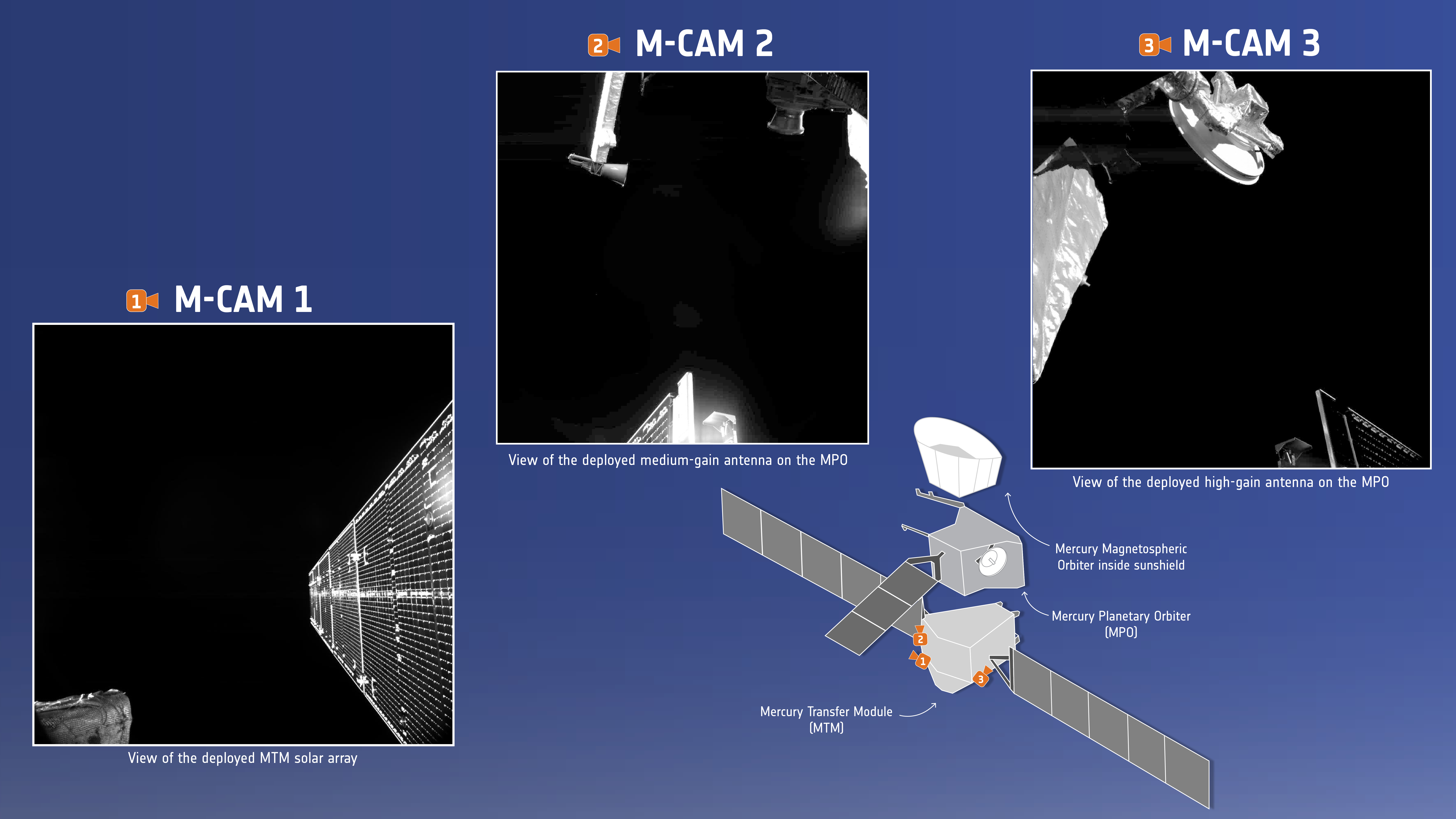 Compilation of images taken by the three monitoring cameras onboard the BepiColombo Mercury Transfer Module (MTM) following themission's launchat 01:45 GMT on 20 October. The monitoring cameras – or ‘M-CAMs’ – returned black-and-white images in 1024 x 1024 pixel resolution of the deployed solar wing and antennas. M-CAM 1imaged one of the deployed solar wings of the transfer module, whileM-CAM 2andM-CAM 3captured the medium- and high-gain antennas on the Mercury Planetary Orbiter (MPO). The monitoring cameras will be used on various occasions during the cruise phase, notably during the flybys of Earth, Venus and Mercury. While the MPO is equipped with a high-resolution scientific camera, this can only be operated after separating from the MTM upon arrival at Mercury in late 2025 because, like several of the 11 instrument suites, it is located on the side of the spacecraft fixed to the MTM during cruise. BepiColombo is a joint endeavour between ESA and the Japan Aerospace Exploration Agency, JAXA. It is the first European mission to Mercury, the smallest and least explored planet in the inner Solar System, and the first to send two spacecraft to make complementary measurements of the planet and its dynamic environment at the same time.